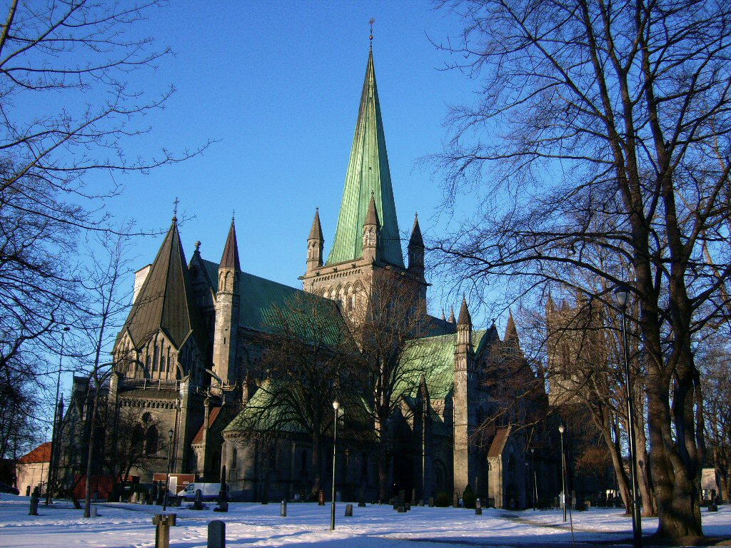 Nidaros Cathedral, Trondheim norway. View from northeast, April 2006.